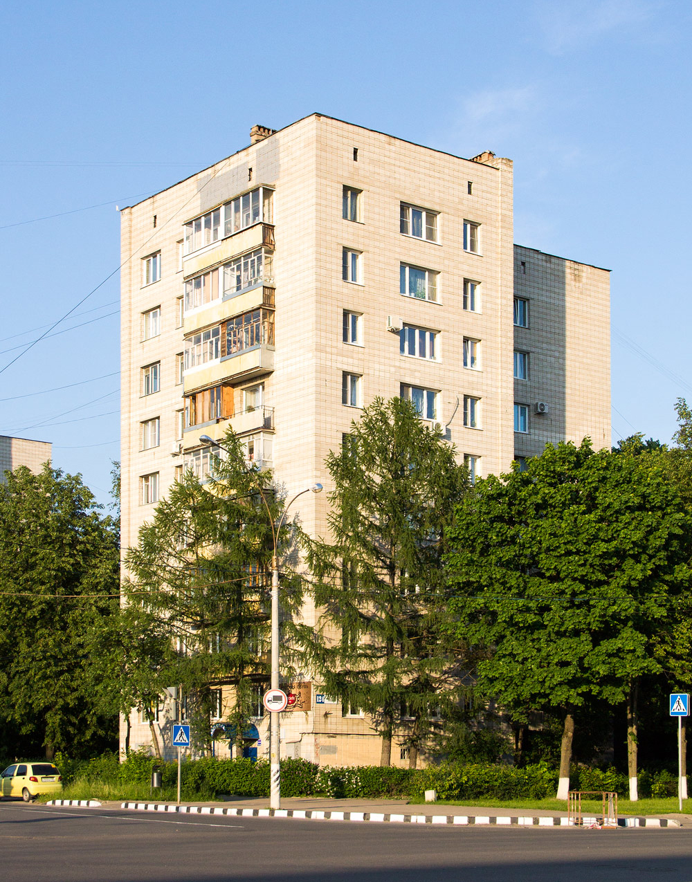 Nadёzhin house. Obninsk